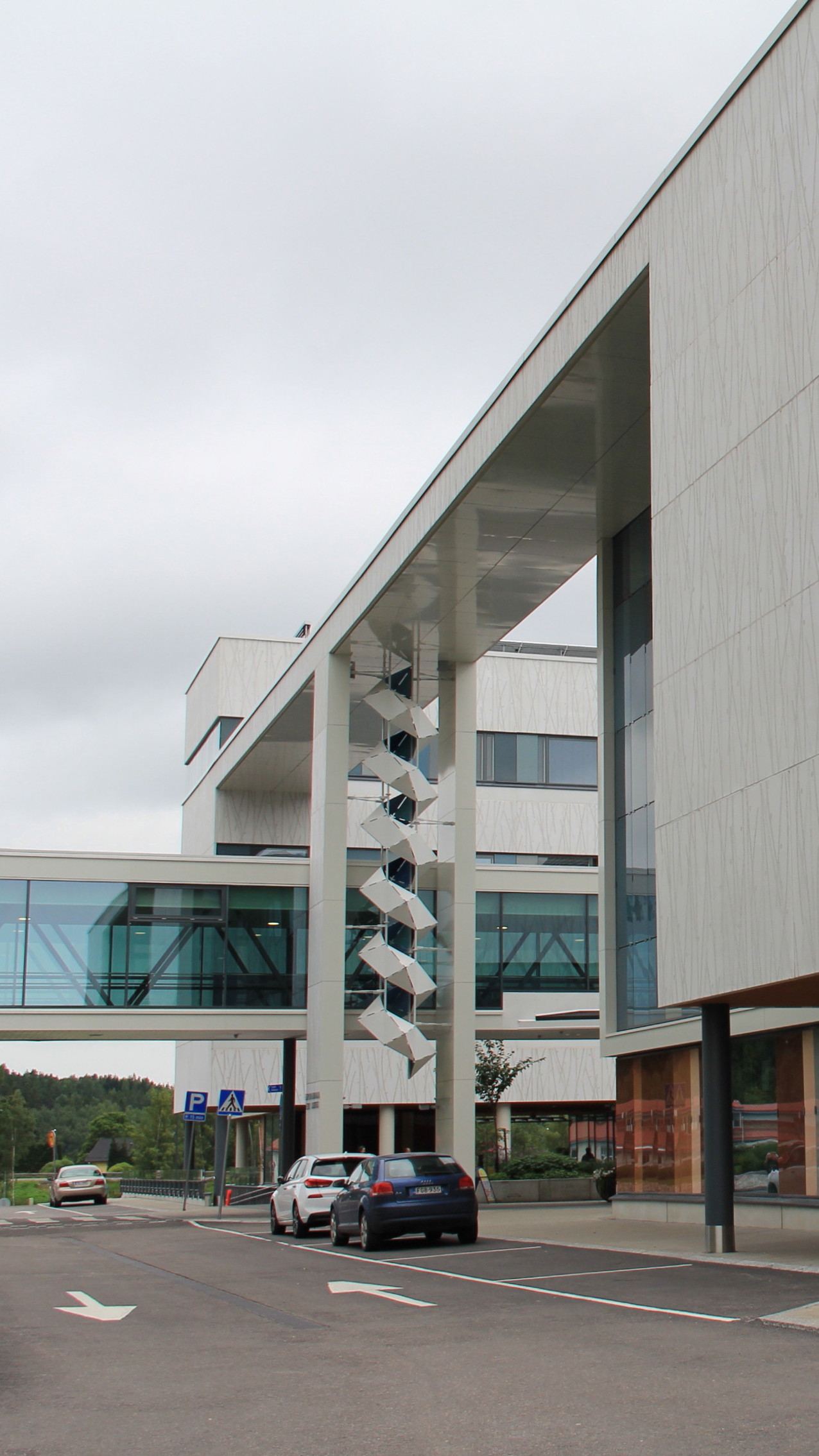 Main entrance of Espoo hospital, Espoo, Finland. Artwork: Oona Tikkaoja: Helix (2017).